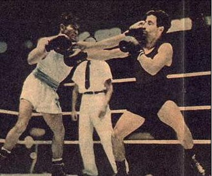 Pascual Perez (a. Pascualito), Argentine boxer. Flyweight Champion of the World (1954-1960), and Olympic Gold Medal at 1948 Summer Games (London). In the picture he is fighting againt Italian Spartaco Bandinelli, at the Olympic final.